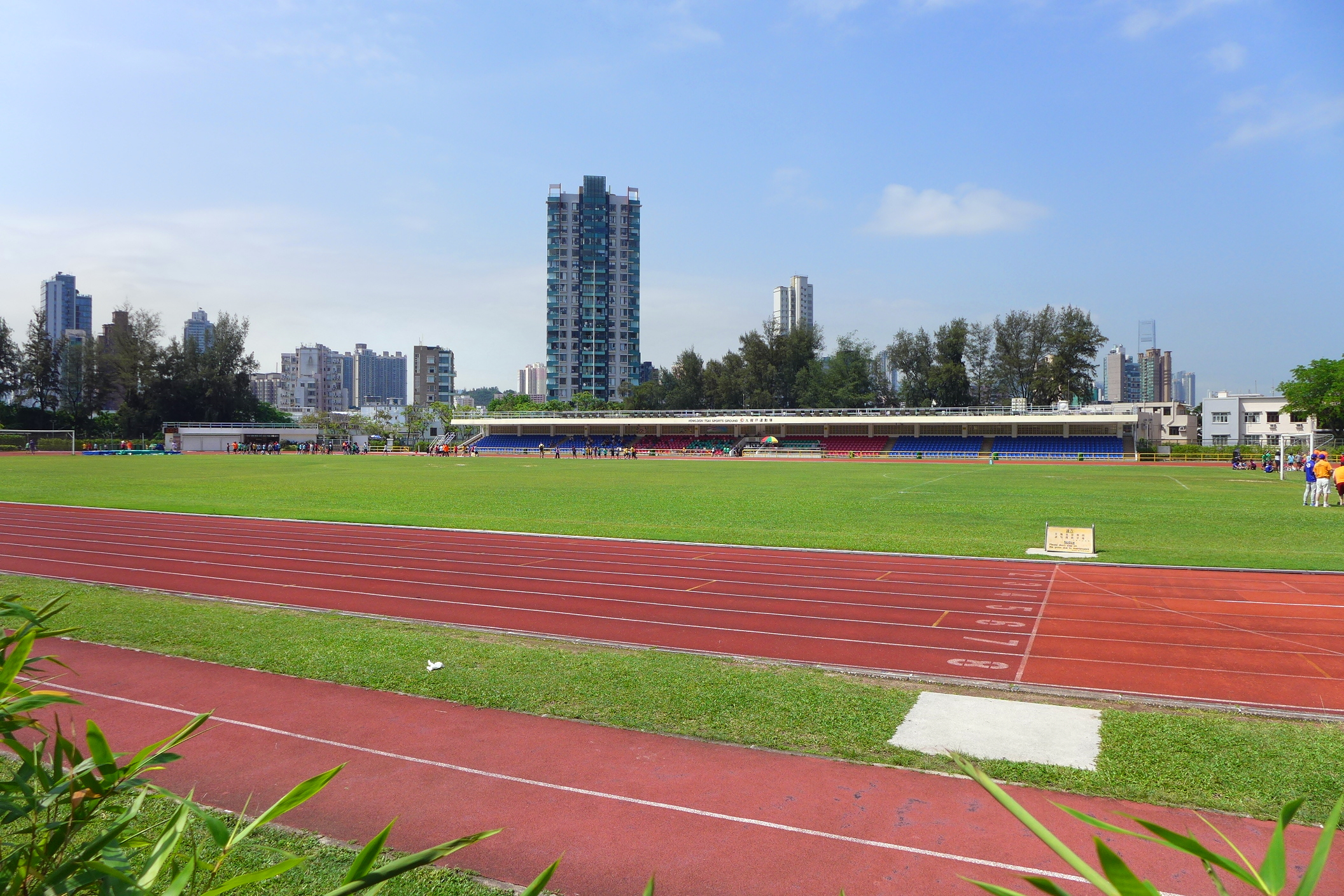 Kowloon Tsai Sports Ground